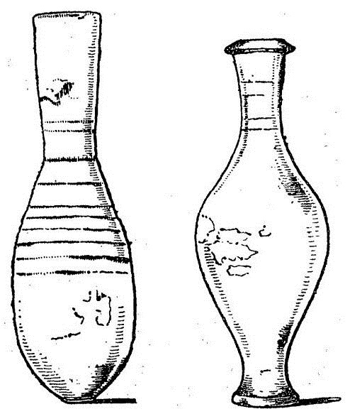 Guttus, a vessel with a narrow mouth or neck, from which liquids were poured in drops; hence its name.